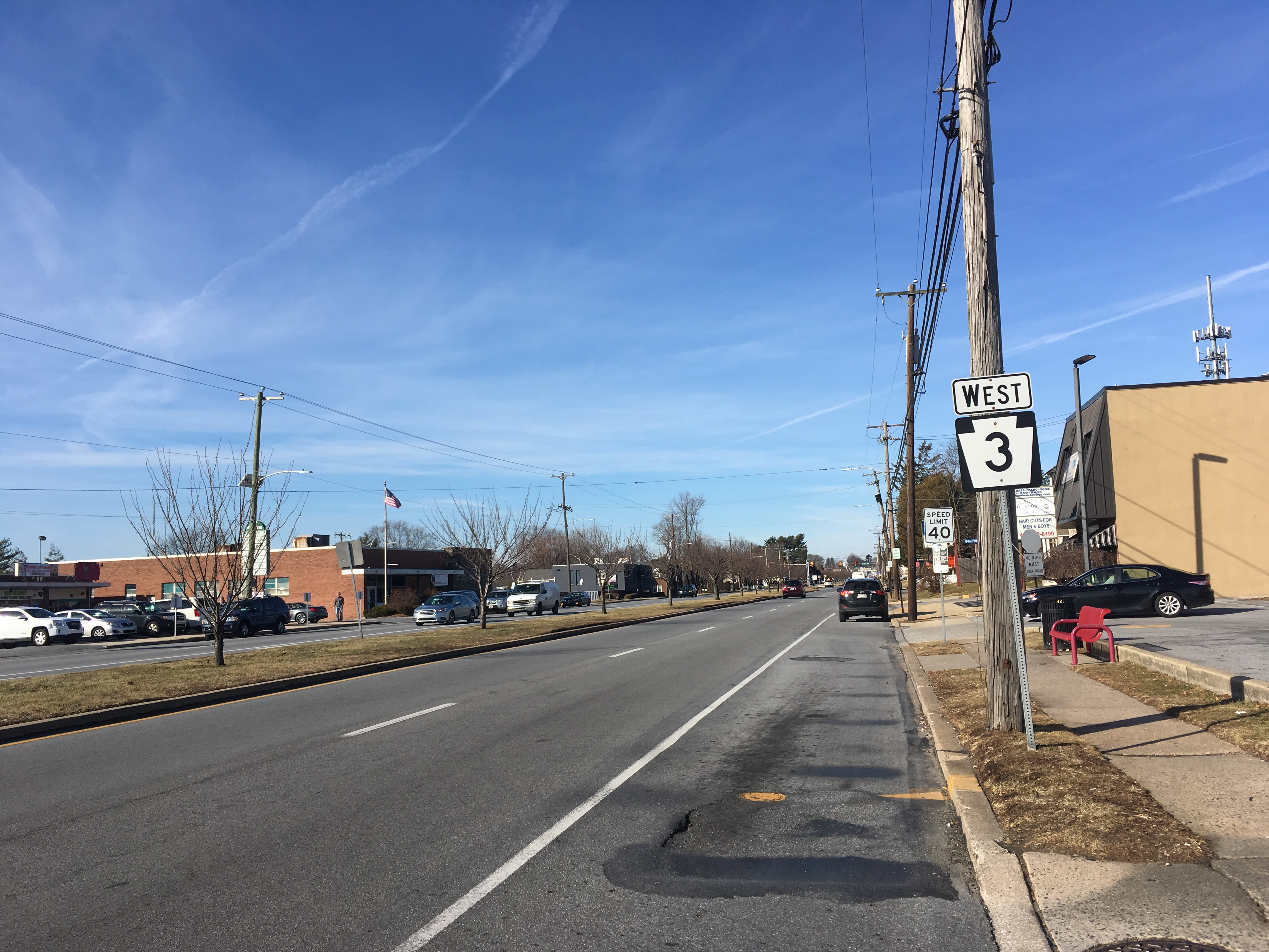 Westbound Pennsylvania Route 3 (West Chester Pike) past the intersection with Pennsylvania Route 320 (Sproul Road) in Broomall, Pennsylvania